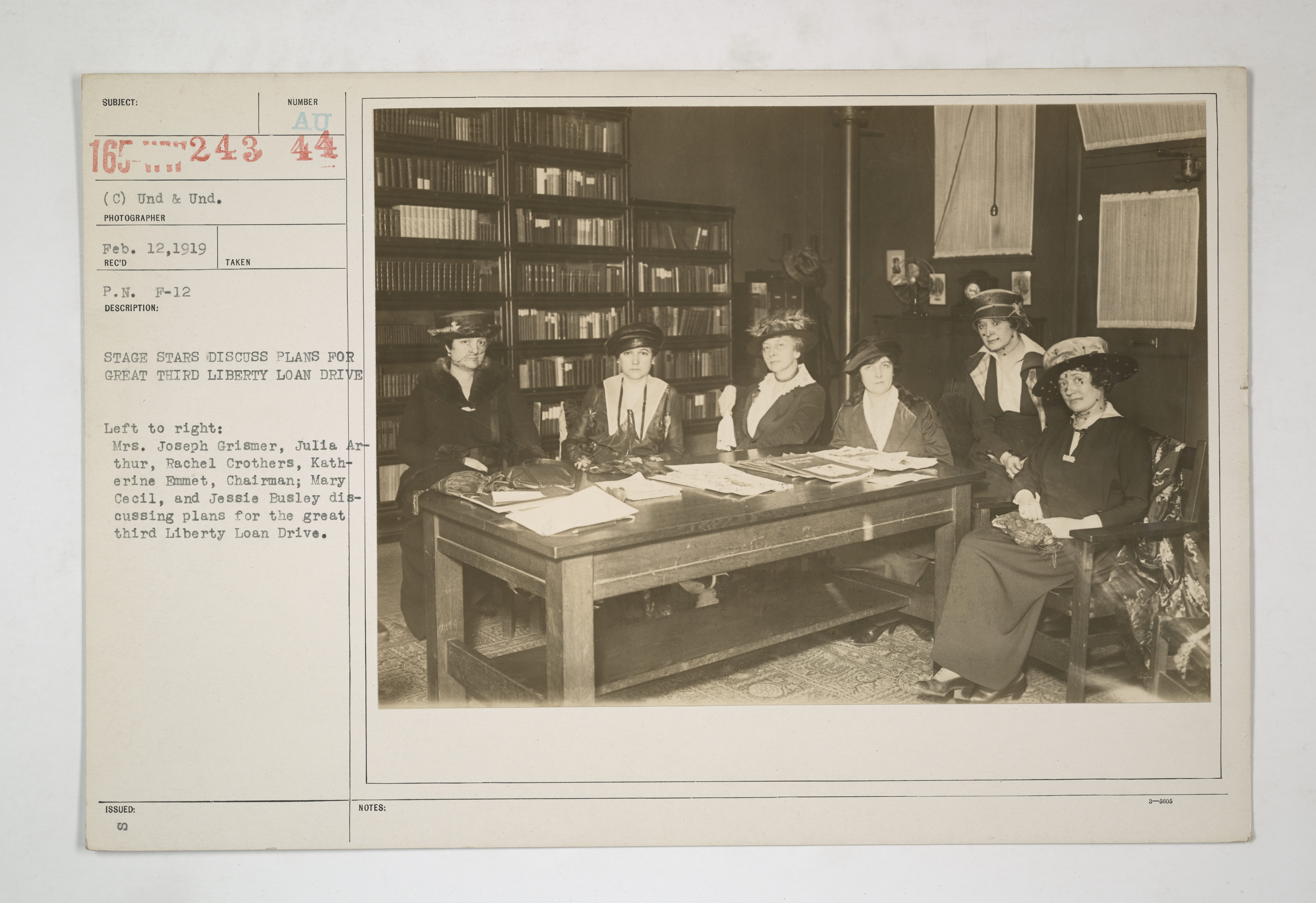 Scope and content: Original Caption: Stage stars discuss plans for great third Liberty Loan Drive. Left to right: Mrs. Joseph Grismer, Julia Arthur, Rachel Crothers, Katherine Emmet, Chairman; Mary Cecil, and Jessie Busley discussing plans for the great Third Liberty Loan Drive. Photographer: Underwood and Underwood.